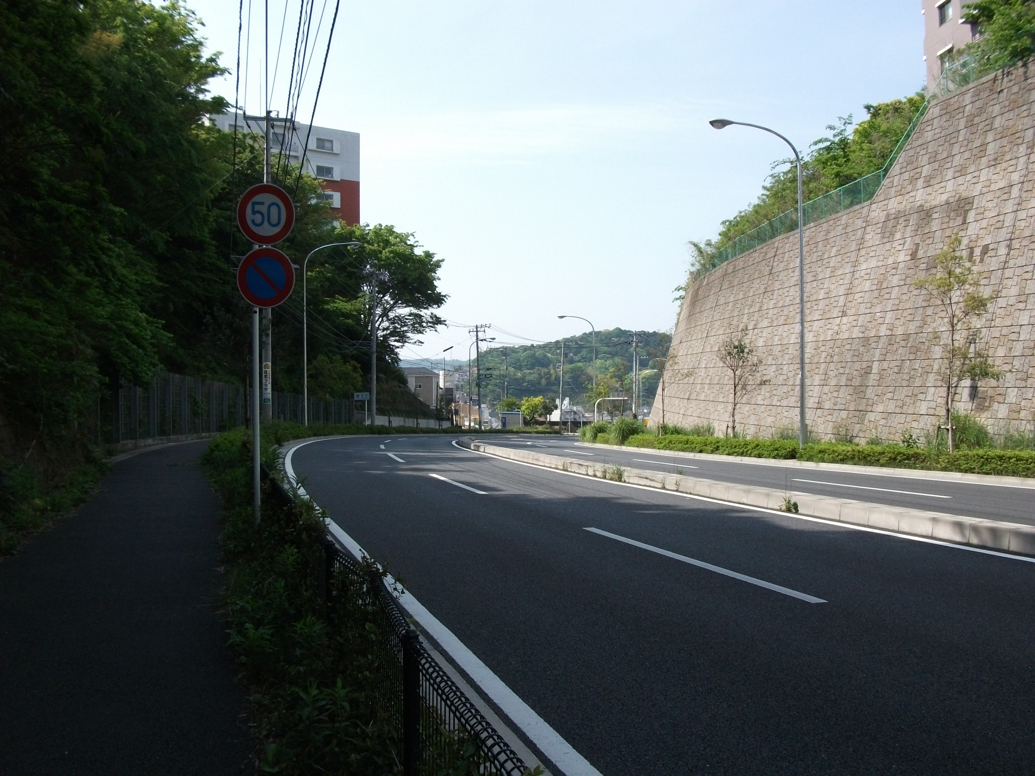 Kamakura Kaidō(Kōnan-ku,Yokohama,Japan)